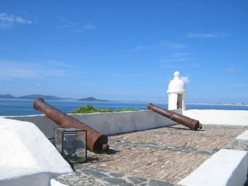 Cannons of Sao Mateus Fort in Cabo Frio, Brazil